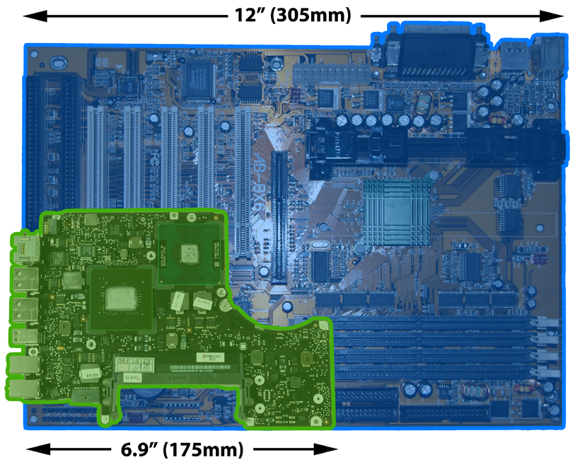 A comparison of a desktop computer motherboard (Abit BX6, ATX) with a laptop motherboard (2008 Unibody Macbook 13") This is a combination of a Macbook motherboard photo from a teardown of the 2008 Unibody MacBook published on (permission granted by author, using GFDL) and a photo of the Abit BX-6 taken by me. The result is released here under the GFDL.